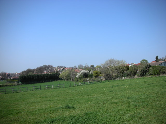 North Anston from the Stones Wood